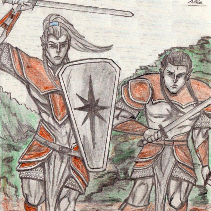 After having pictures of Maedhros, Maglor, Celegorm and Caranthir its time to have one of Curufin too. Here he is together with Celegorm, but I will draw a portrait someday... I promise.